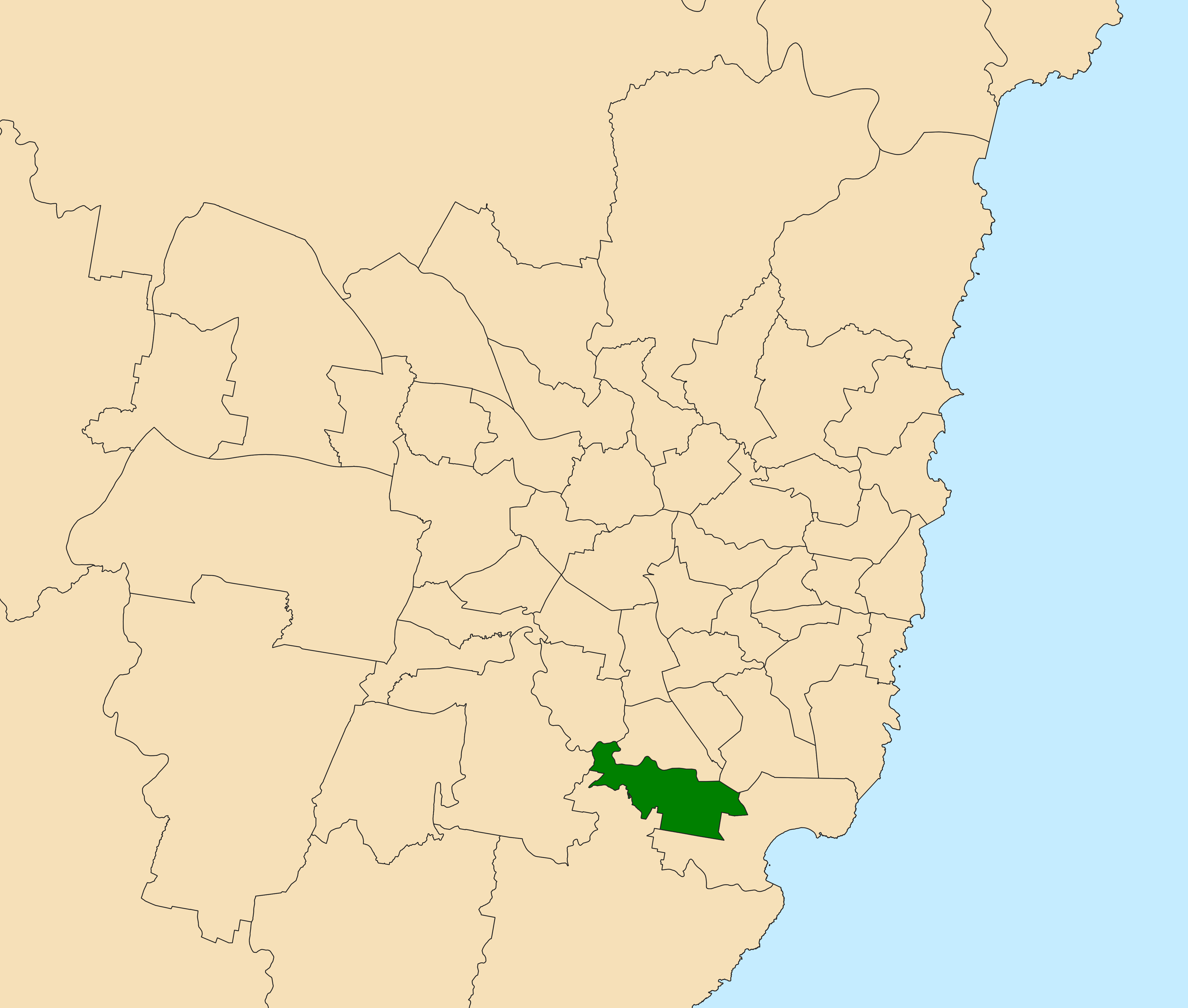 Location of the state electoral district of Miranda (dark green) in the metropolitan Sydney area as of the 2019 New South Wales state election. Incorporates or developed using Administrative Boundaries ©PSMA Australia Limited licensed by the Commonwealth of Australia under Creative Commons Attribution 4.0 International licence (CC BY 4.0).